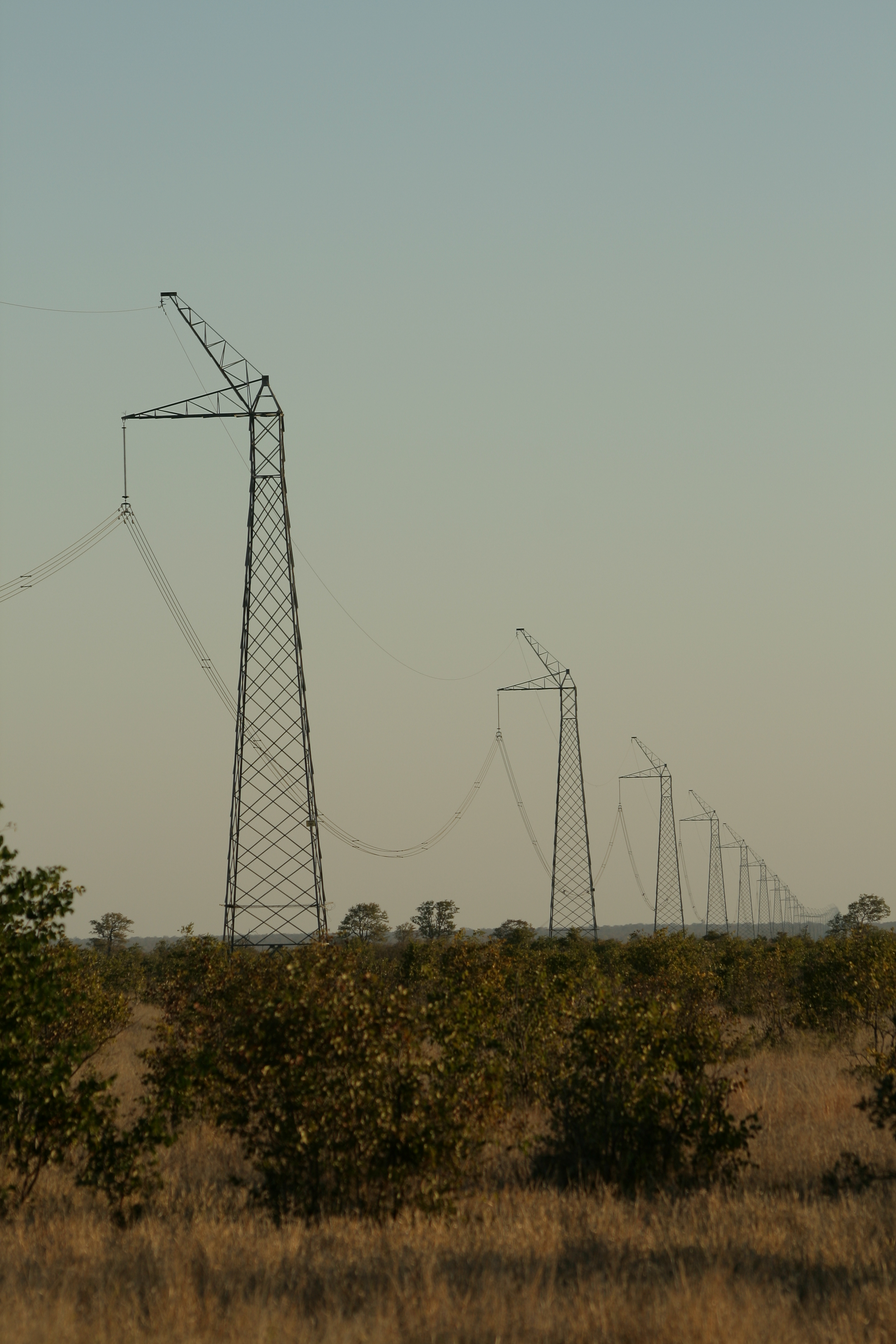 One of the two Cahora Bassa high-voltage direct current lines (here: South Pole) as it crosses through the Kruger National Park, South Africa